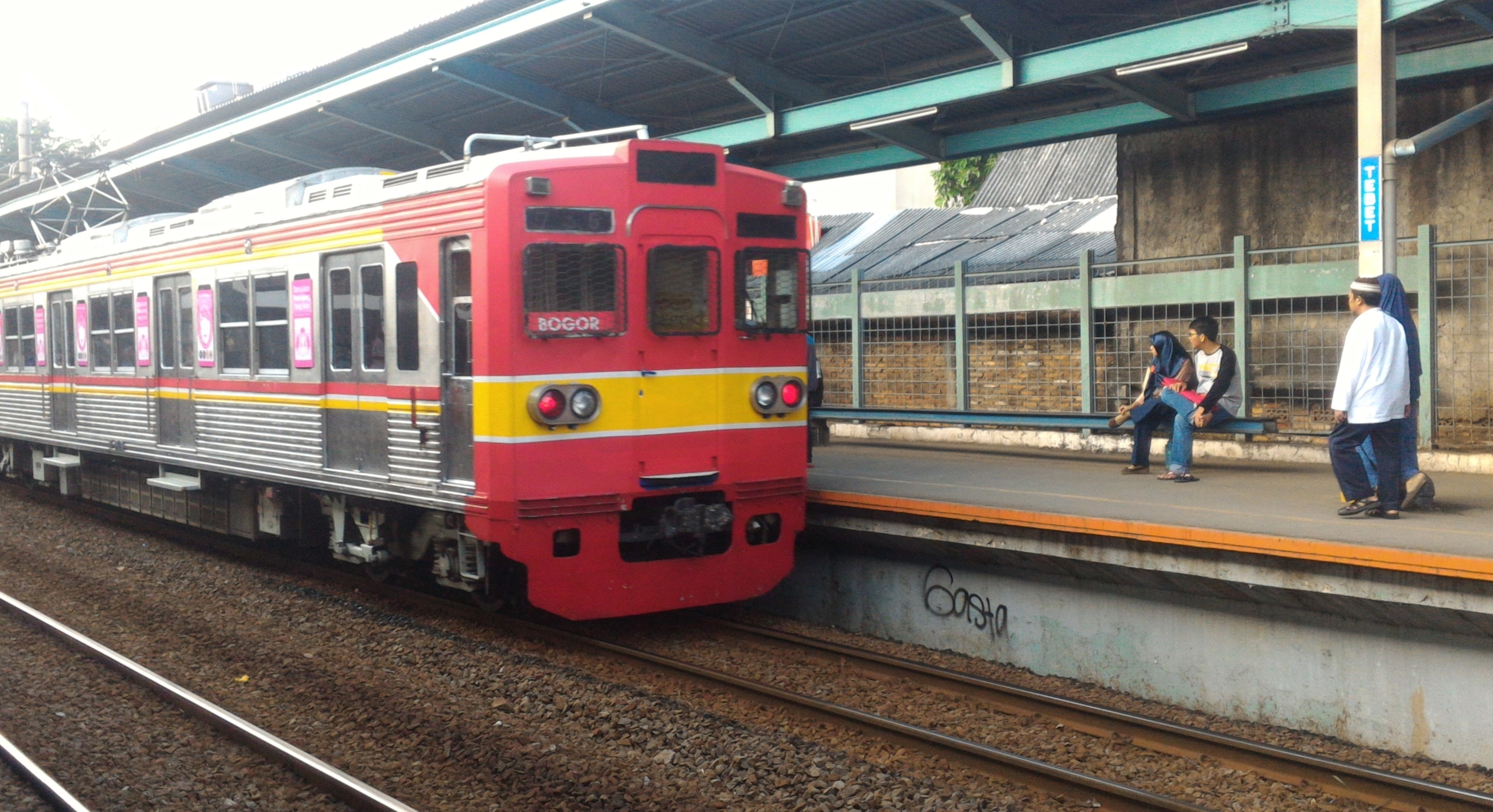 Former Toei 6000 series EMU set 6181/6168 at Tebet Station in Indonesia